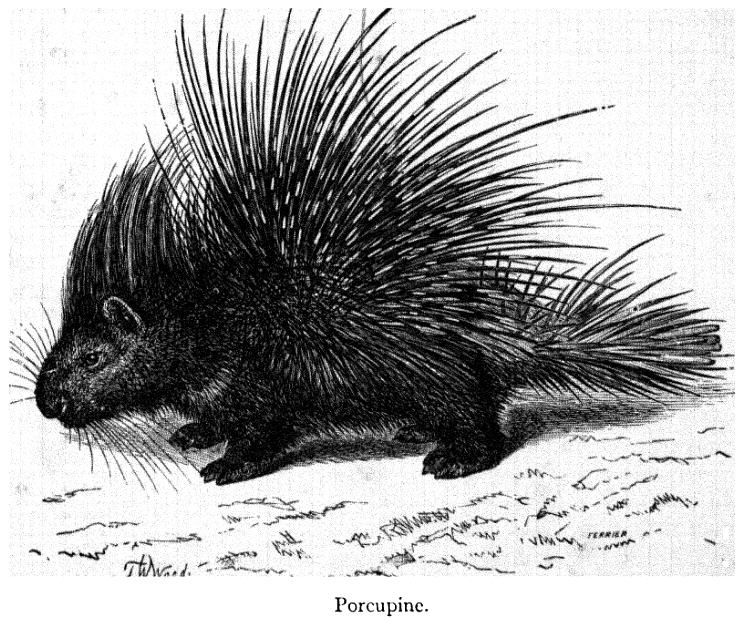 Indian Porcupine, Hystrix indica